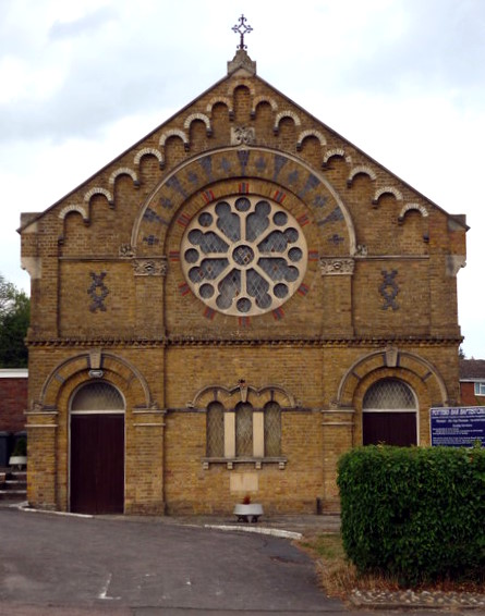 Baptist church hall, Barnet Road, Potters Bar, Hertfordshire, seen from the west. It was built in 1869 as the Baptist church, and converted into a church hall in the 20th century when the new church was completed next door.